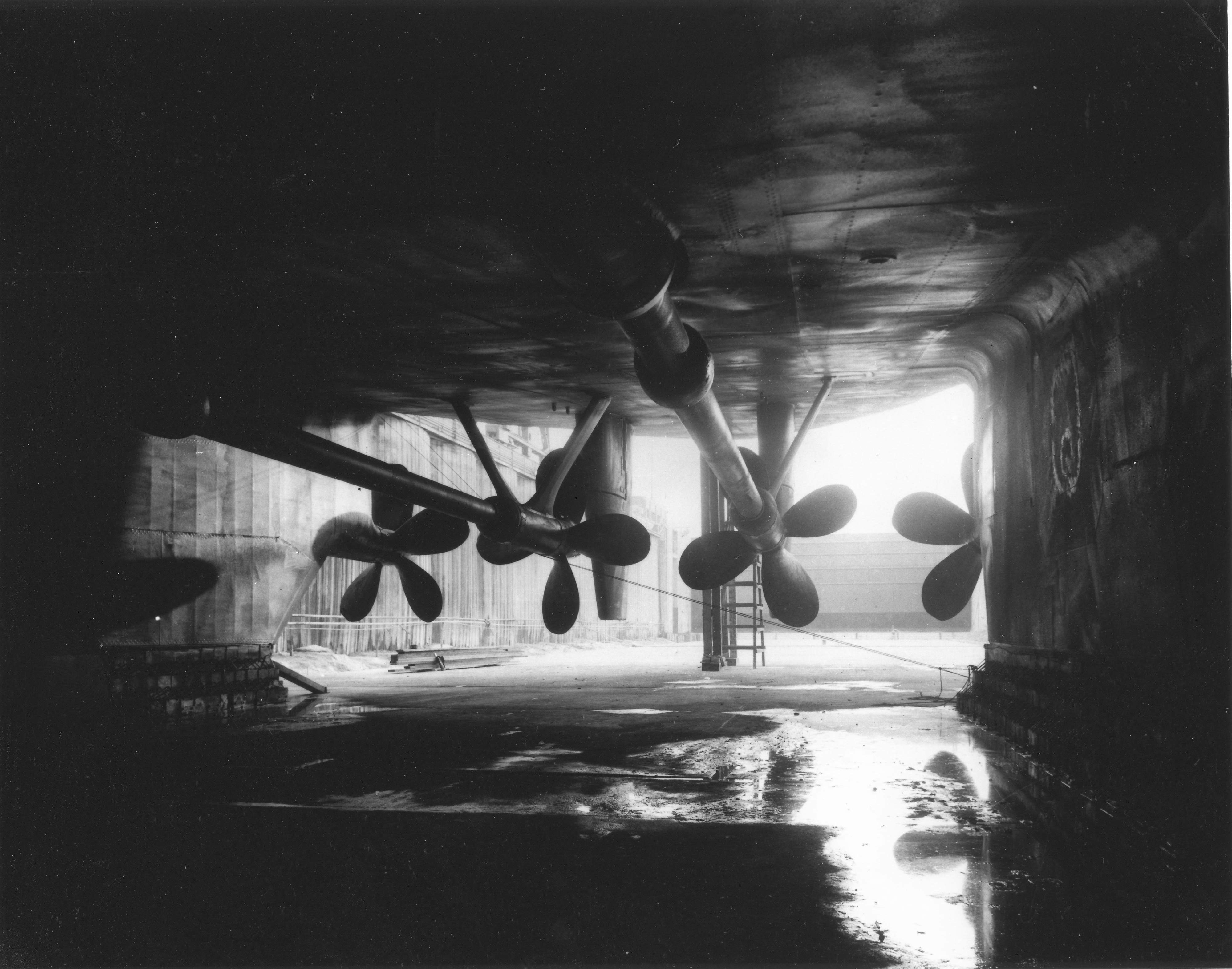 USS Indiana (BB-58): View under the ship's hull, looking aft to show all four propellers. Taken in drydock at the Newport News Ship Building and Drydock Company, Newport News, Virginia, 13 March 1942. This photograph shows the outboard skegs, incorporating the outer propeller shafts, that were a feature of this class of battleship. The ship's twin rudders are directly aft of the inboard propellers.